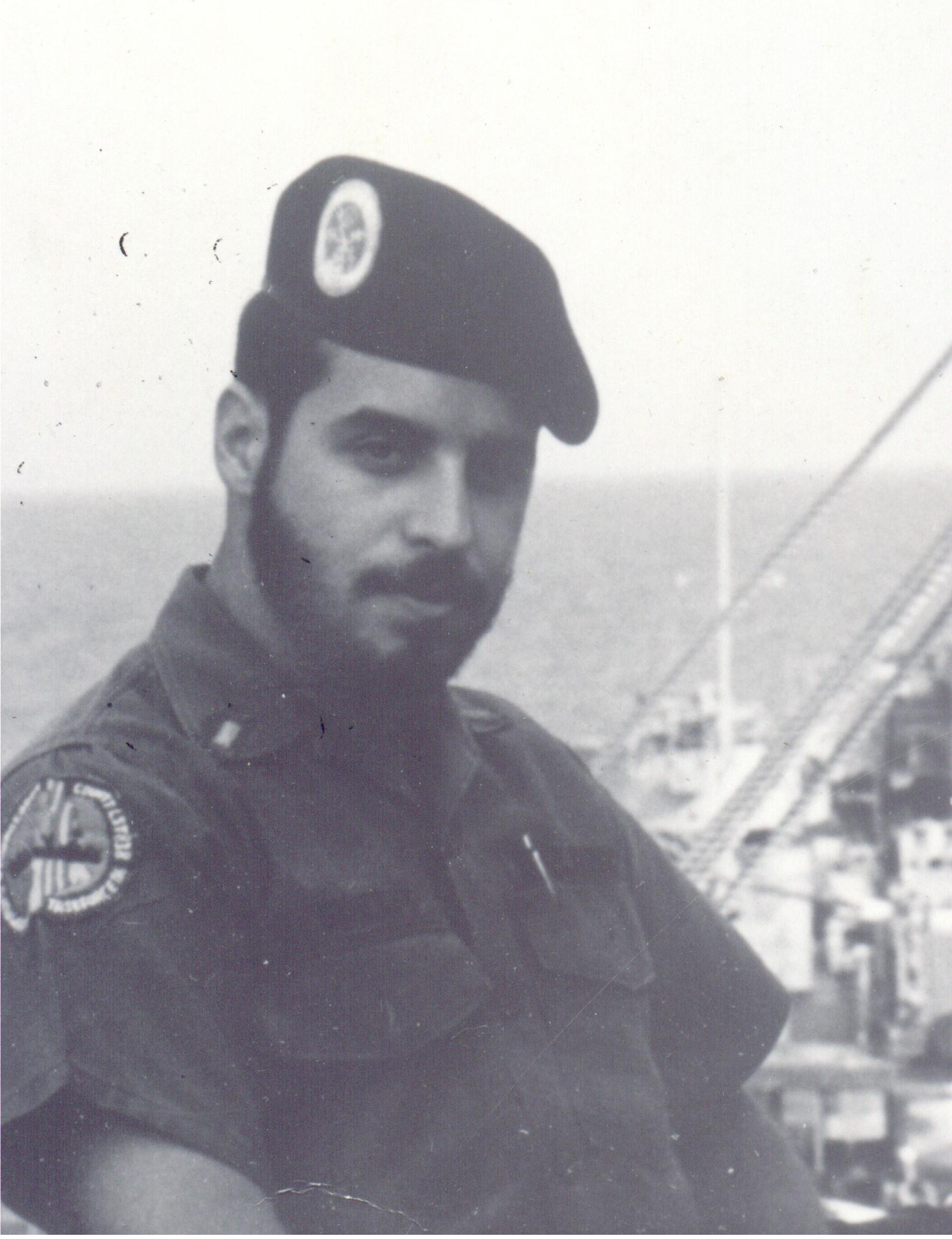 Photo taken by public affairs officer, USS Hunterdon County (LST-838), of then Ensign Arnold E. Resnicoff, 1970